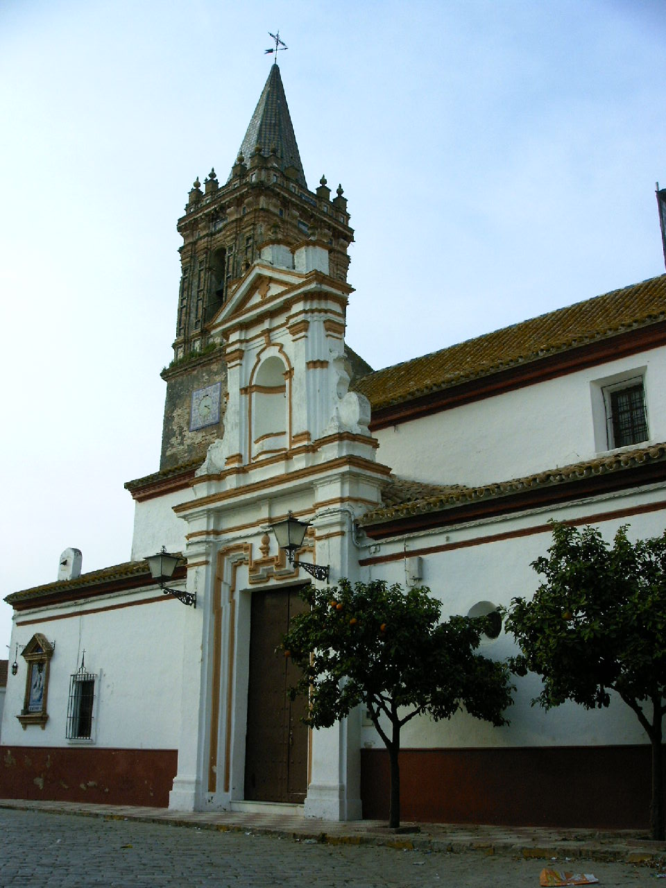 Divino Salvador Church in Escacena del Campo, Huelva, Spain.